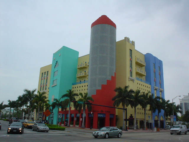 Building in Miami Beach, Florida